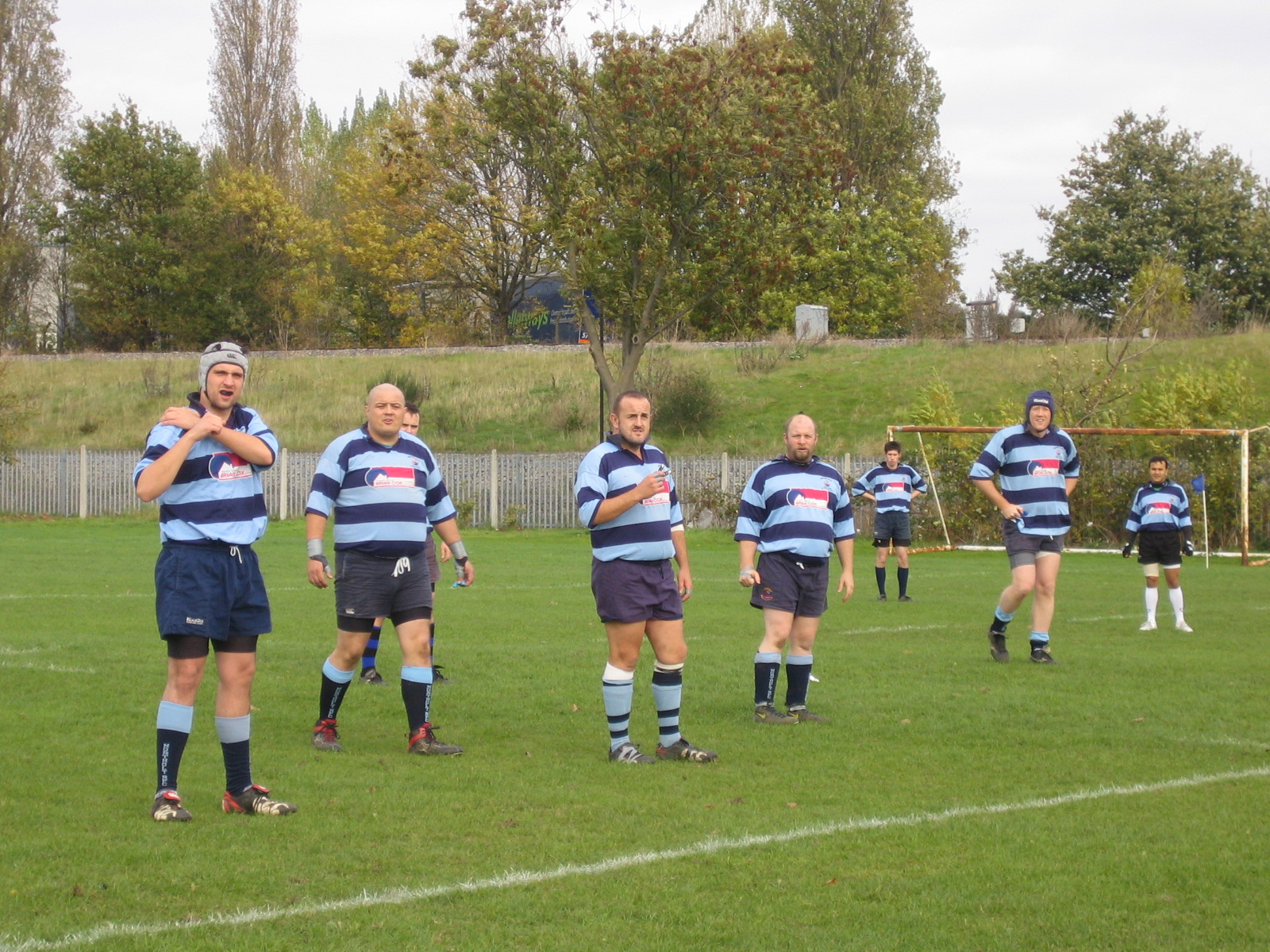 Northolt Rugby Football Club (NRFC) pack